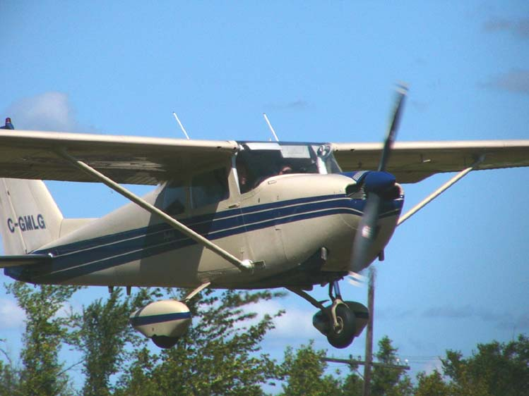 Cessna 175A (C-GMLG)